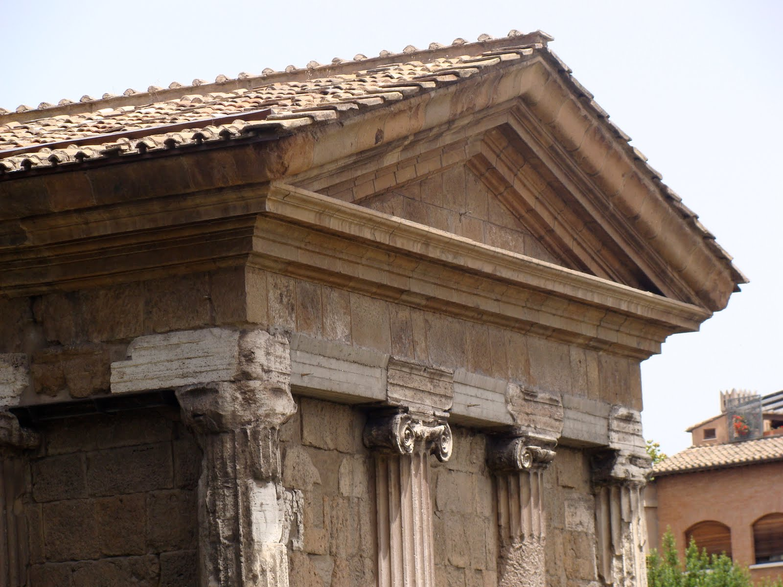 Temple of Portunus Rome 2